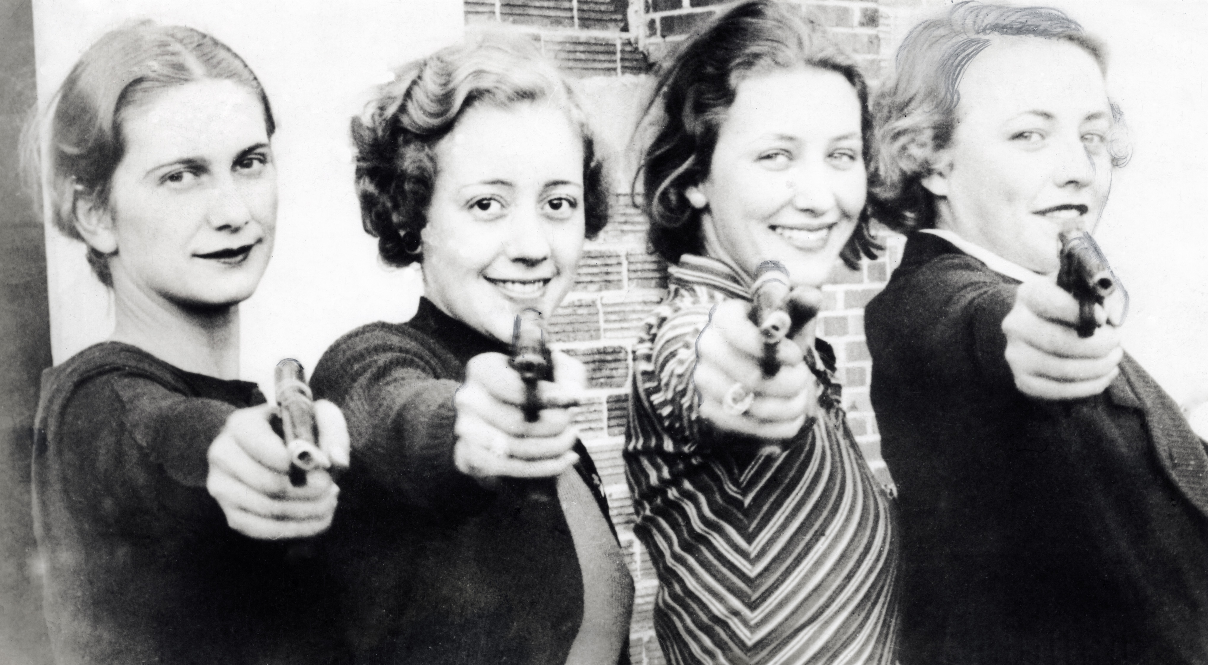 Women with their pistols at the ready: ladies champions team of the Missouri University shooting club.